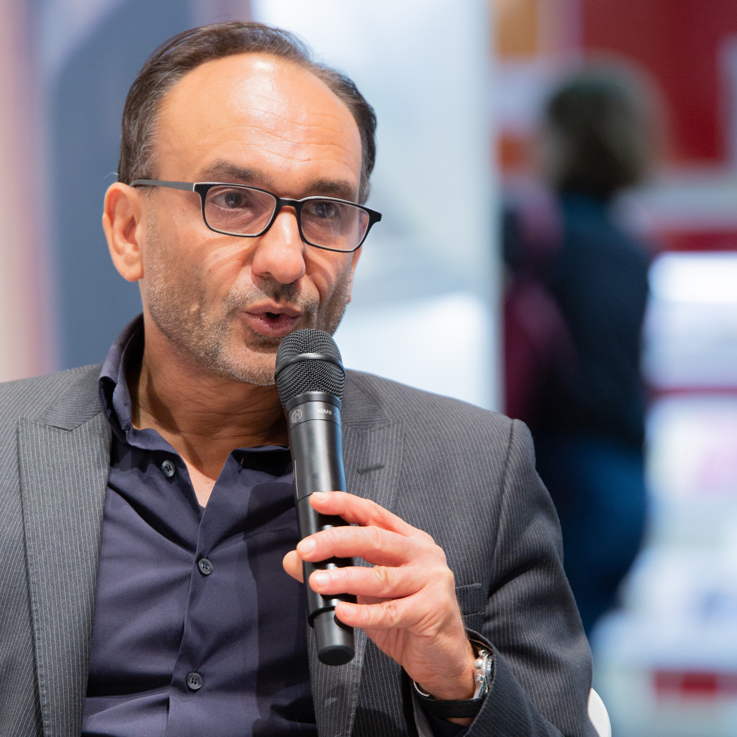 Daniel Speck at the Frankfurt Book Fair 2018